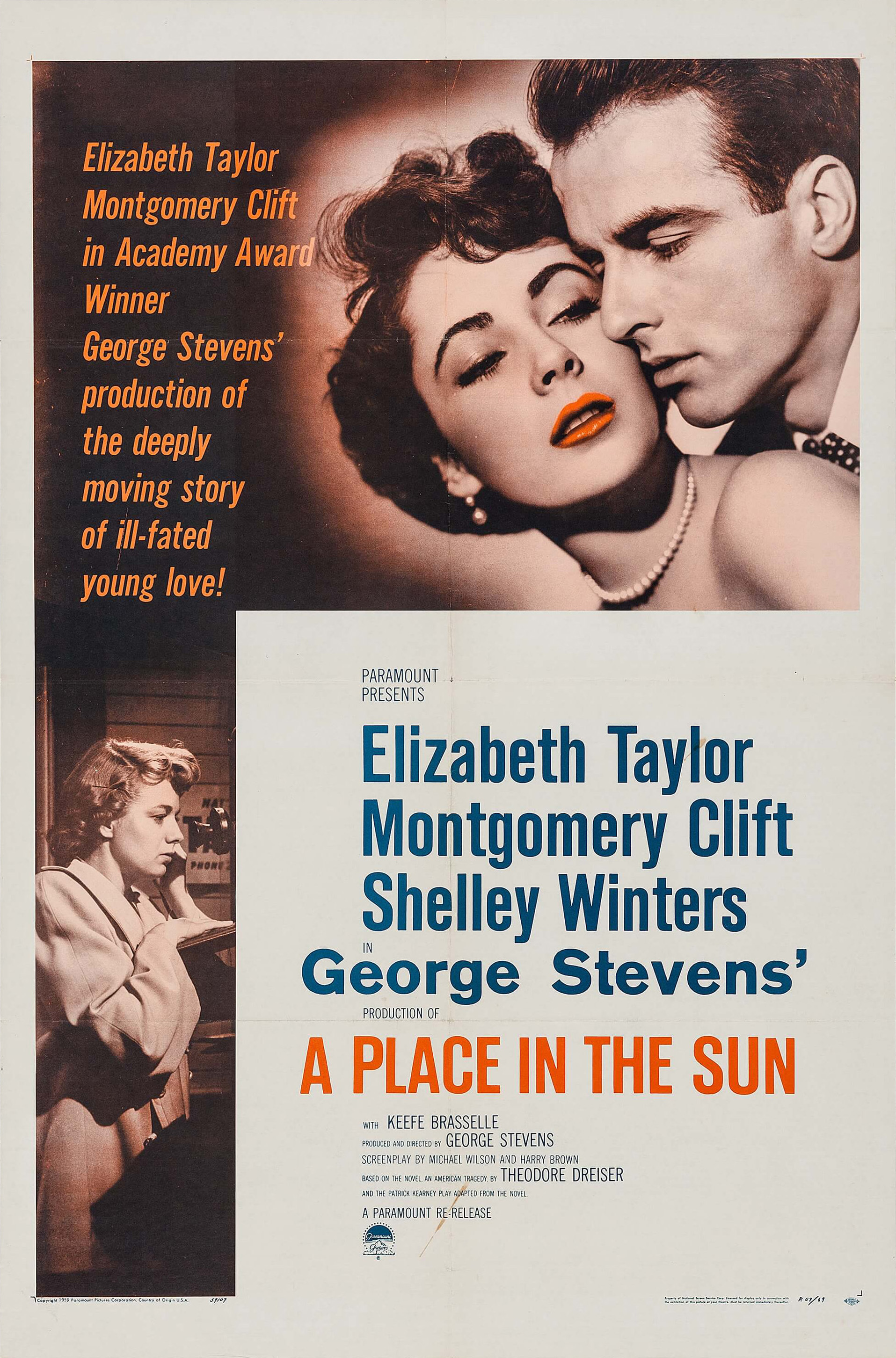 Theatrical poster for the US theatrical re-release of the 1951 film A Place in the Sun.